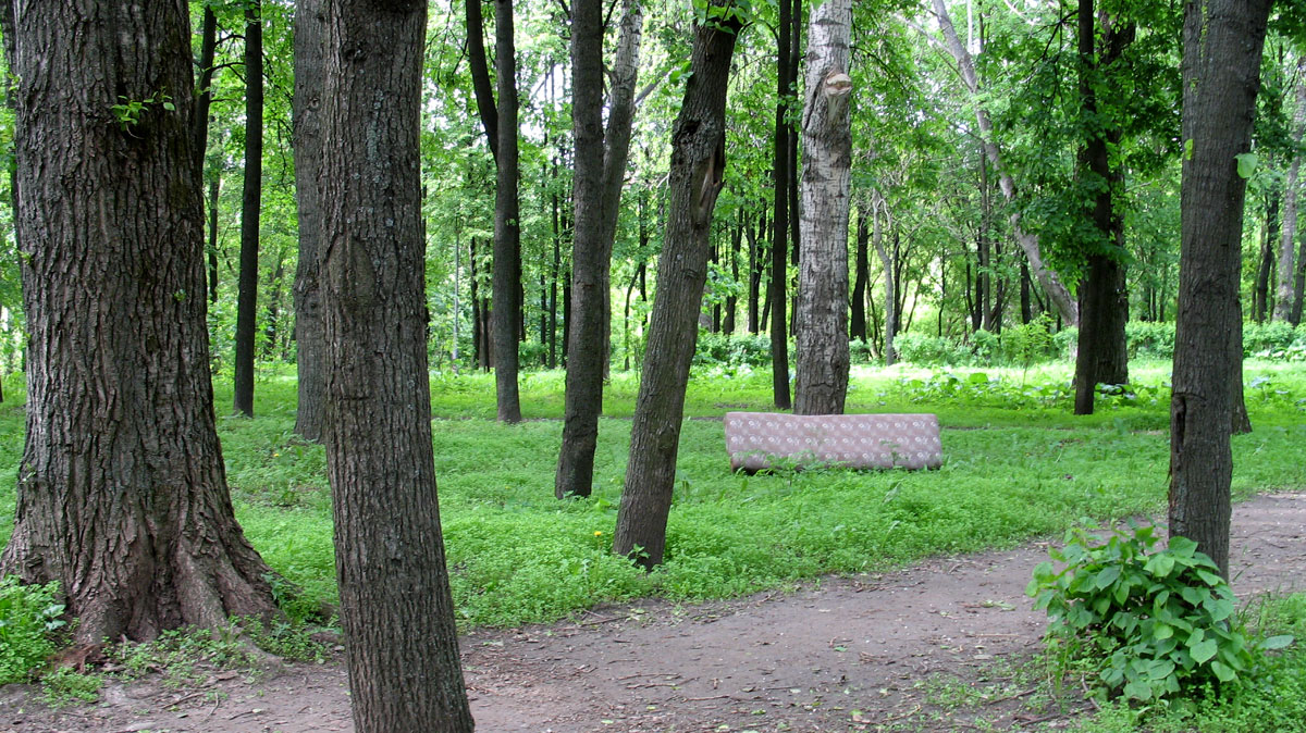 Karatkievič Park in Viciebsk (with sofa back leaned to the tree :)